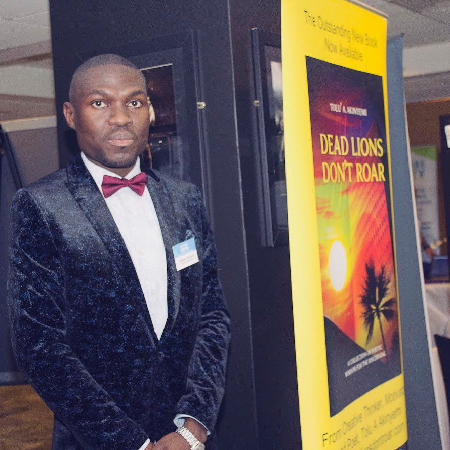 Tolu' A Akinyemi in 2020 at the launch of Dead Lions Don't Roar in England